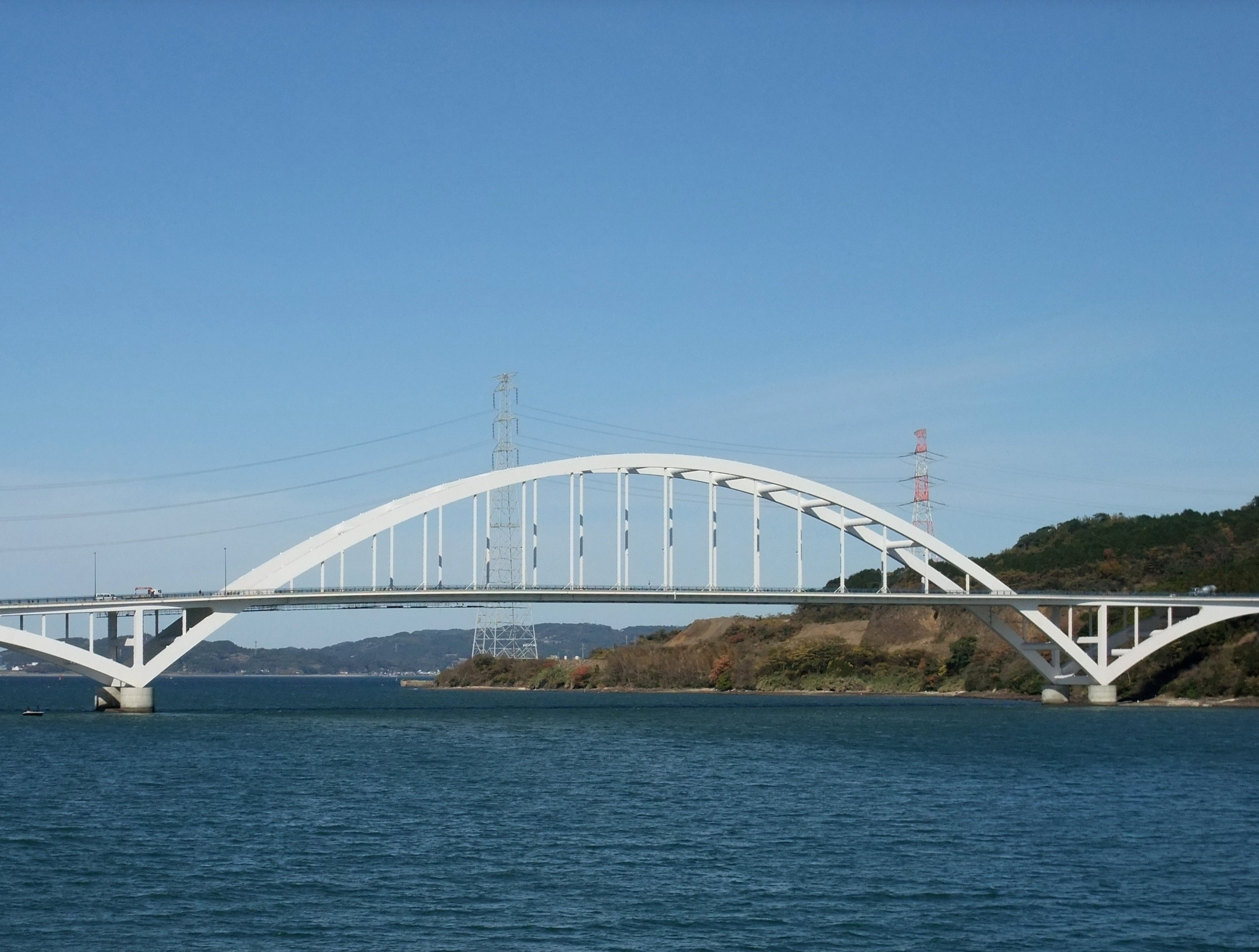 The Imari Bay Bridge, an arch bridge in Imari, Saga Prefecture , Japan